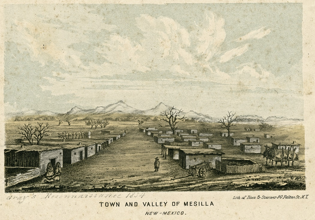 An 1854 watercolor painting of Mesilla New Mexico by Carl Schuchard titled "Town and Valley of Mesilla".